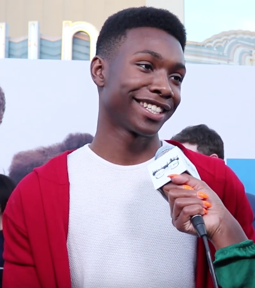 Niles Fitch at the 'Little' premiere, 2019.